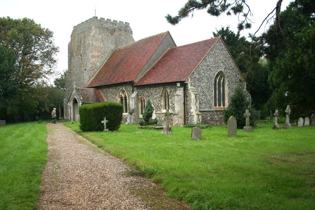 St Mary's parish church, Holton St Mary, Suffolk, seen from the southeast